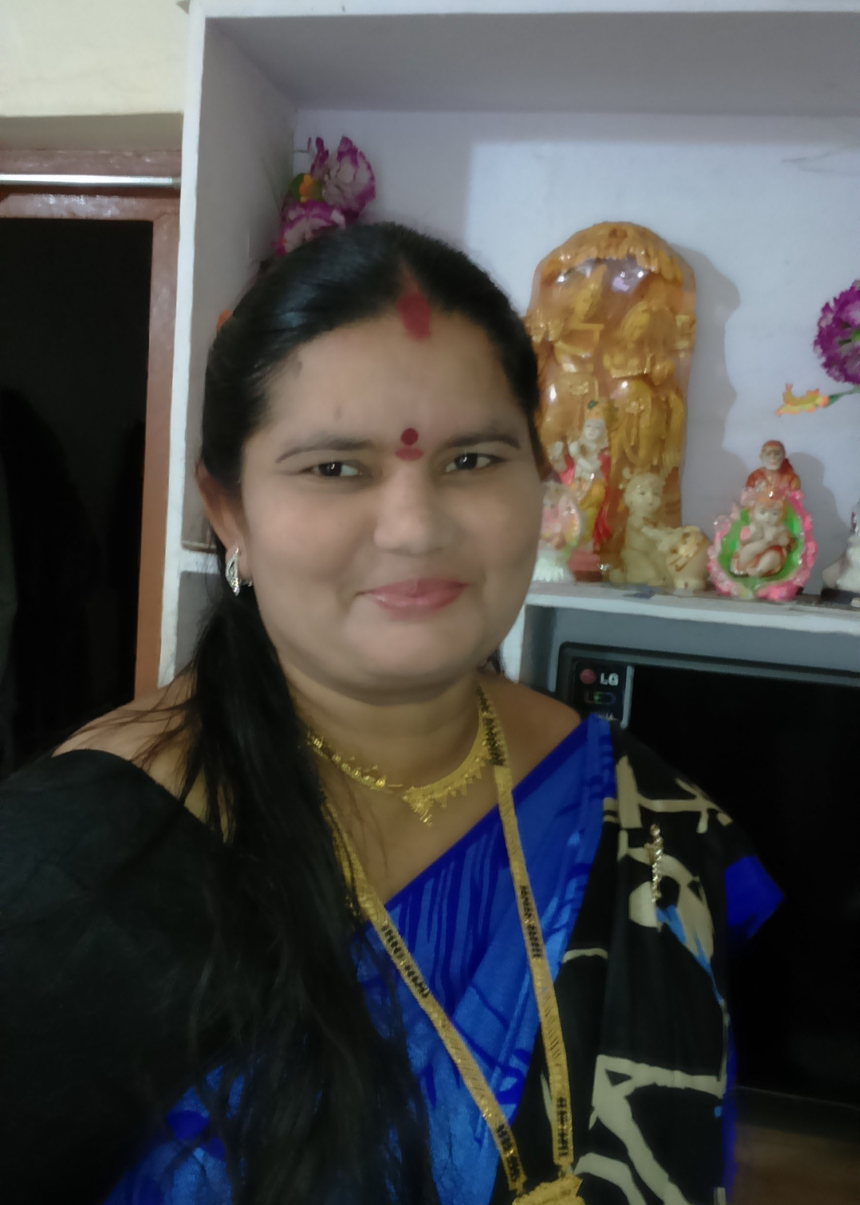 Siri Labala